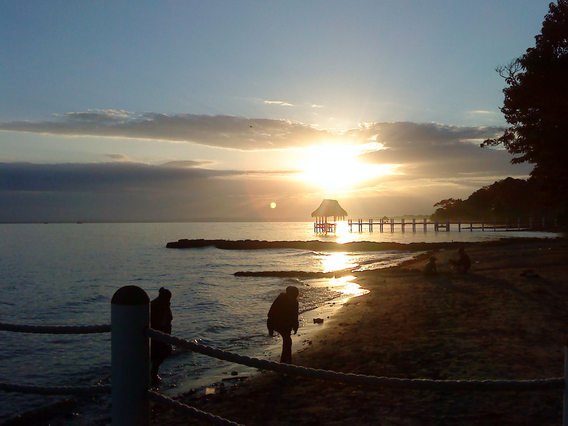 El Faro, Punta de Palma, Puerto Barrios Izabal